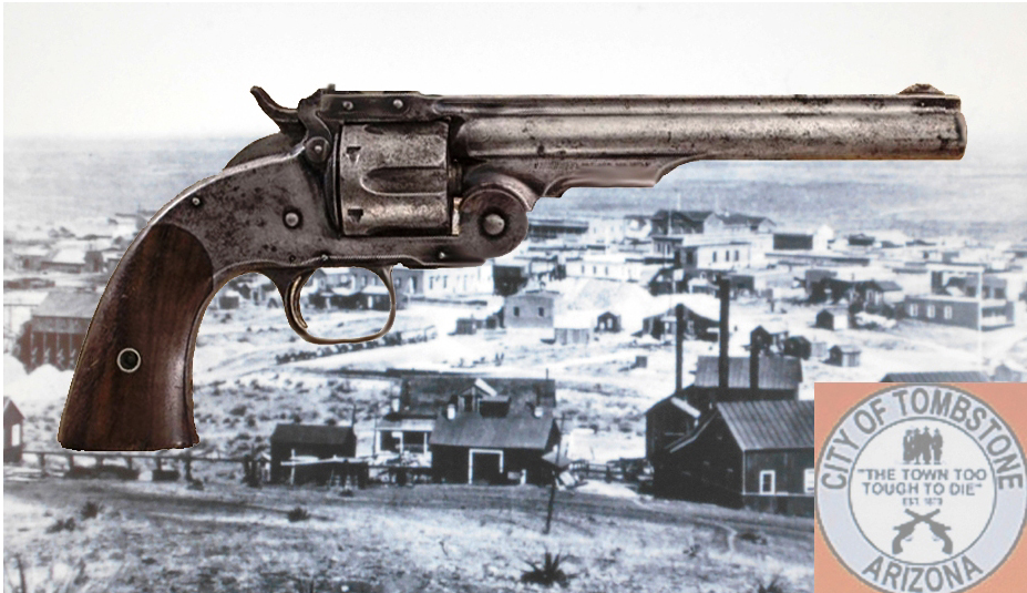 S&W Schofield Model